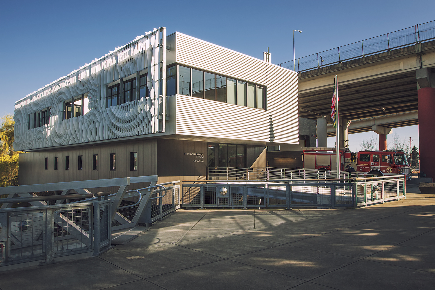 Portland Fire & Rescue Station 21 is located at 5 SE Madison on the east bank of the Willamette river. Built 1961, reconstructed in 2010. The facade by artist David Franklin ( is called “The Rippling Wall”.